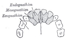 The premaxilla and its sutures. (After Albrecht.)